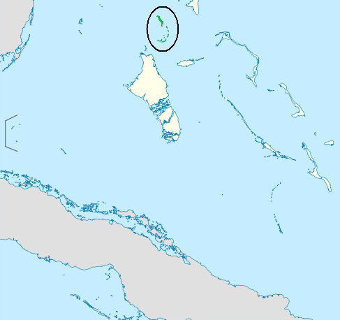 Location map of the Bahamas Equirectangular projection, N/S stretching 105 %. Geographic limits of the map: * N: 27.5° N * S: 20.7° N * W: 80.7° W * E: 70.8° W